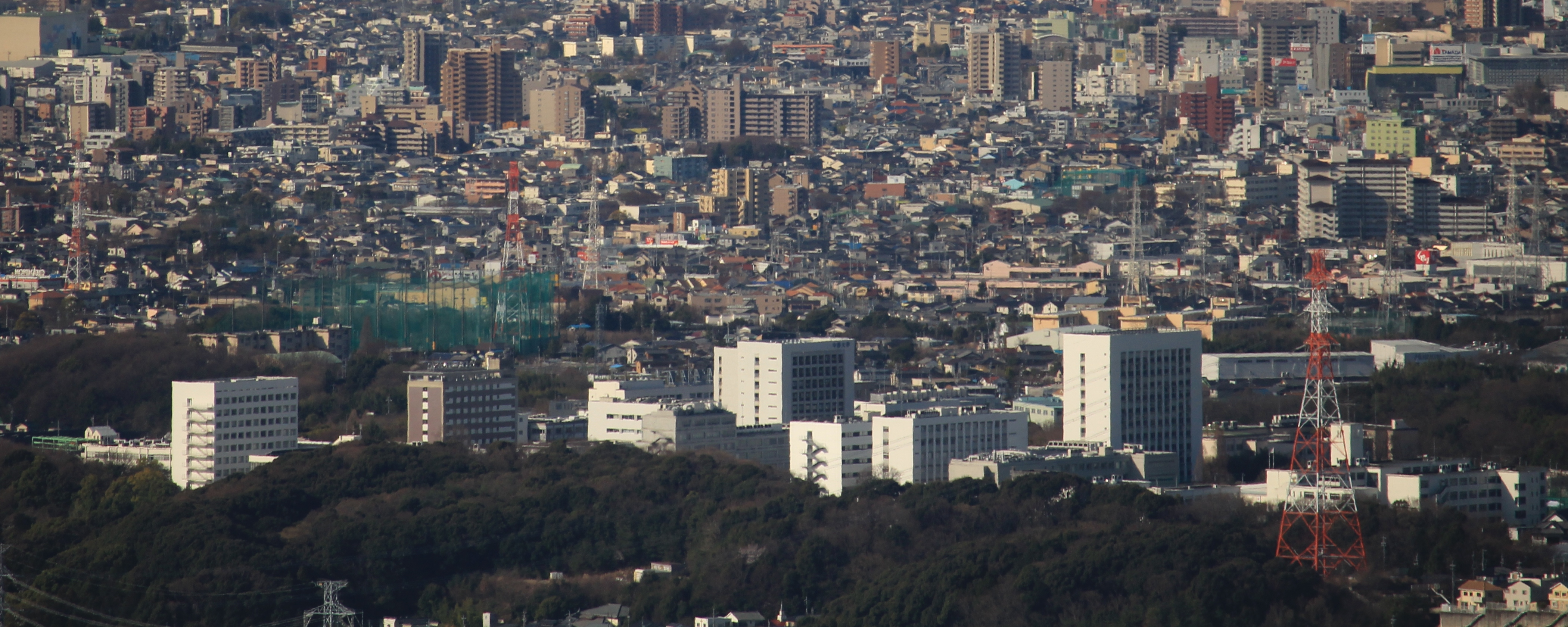 Chubu University seen from Mount Miroku in Kasugai, Aichi prefecture ,Japan.